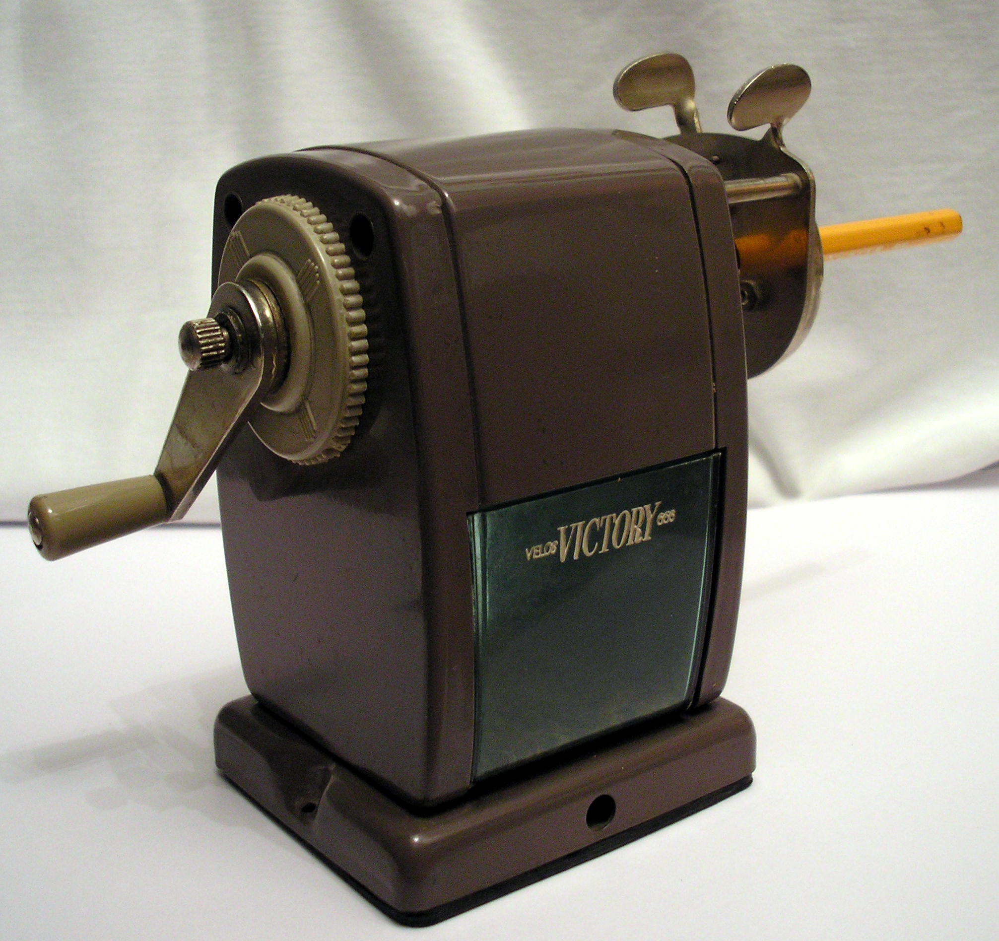 A Velos 'Vistory' 666 Pencil Sharpener with a pencil in it.